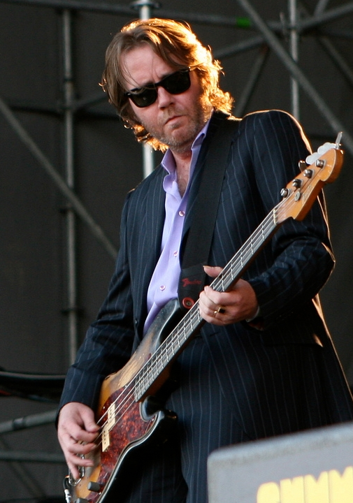 Nick Cave and the Bad Seeds/Grinderman bassist Martyn P. Casey performing in Barcelona, Spain.